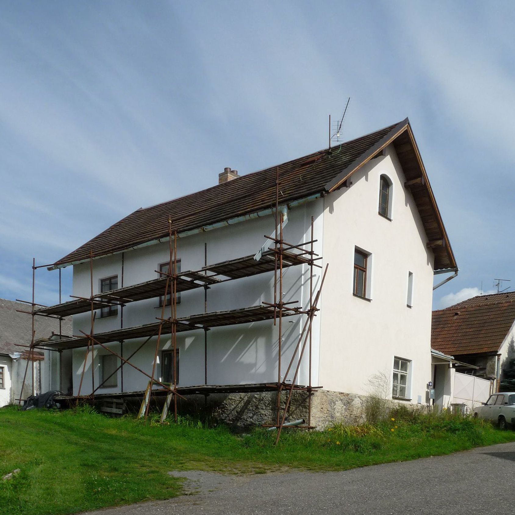 Former synagogue in the village of Radenín, Tábor District, Czech Republic, presently used as a house.